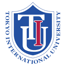 Official Seal of the Tokyo International University